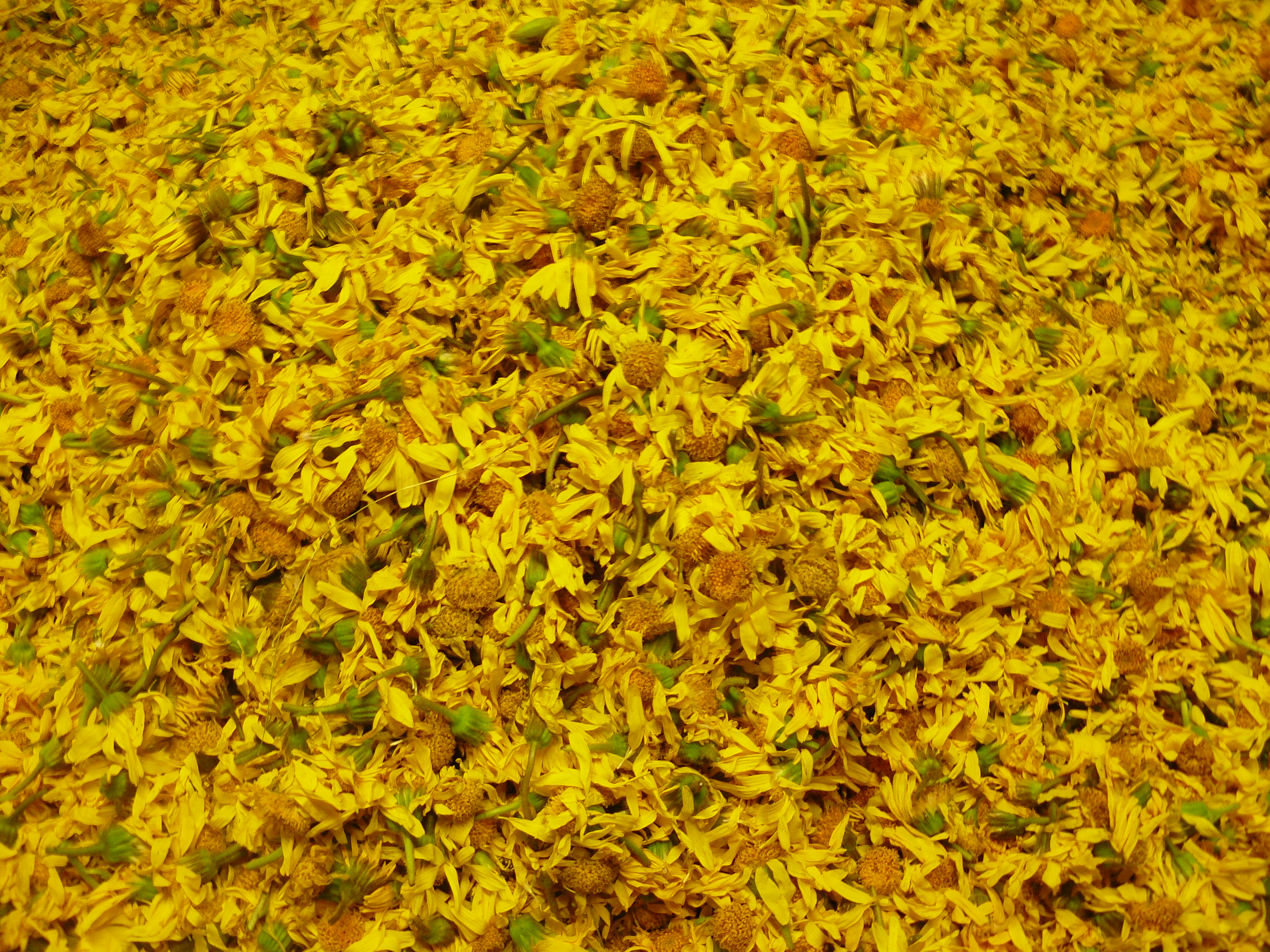 Heads of Arnica montana picked and loose, ready to be dried